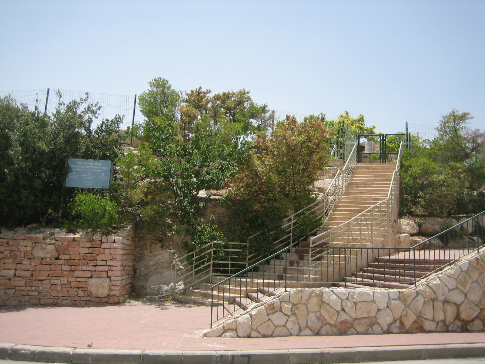 Martirius archeological site in Ma'ale-Adumim